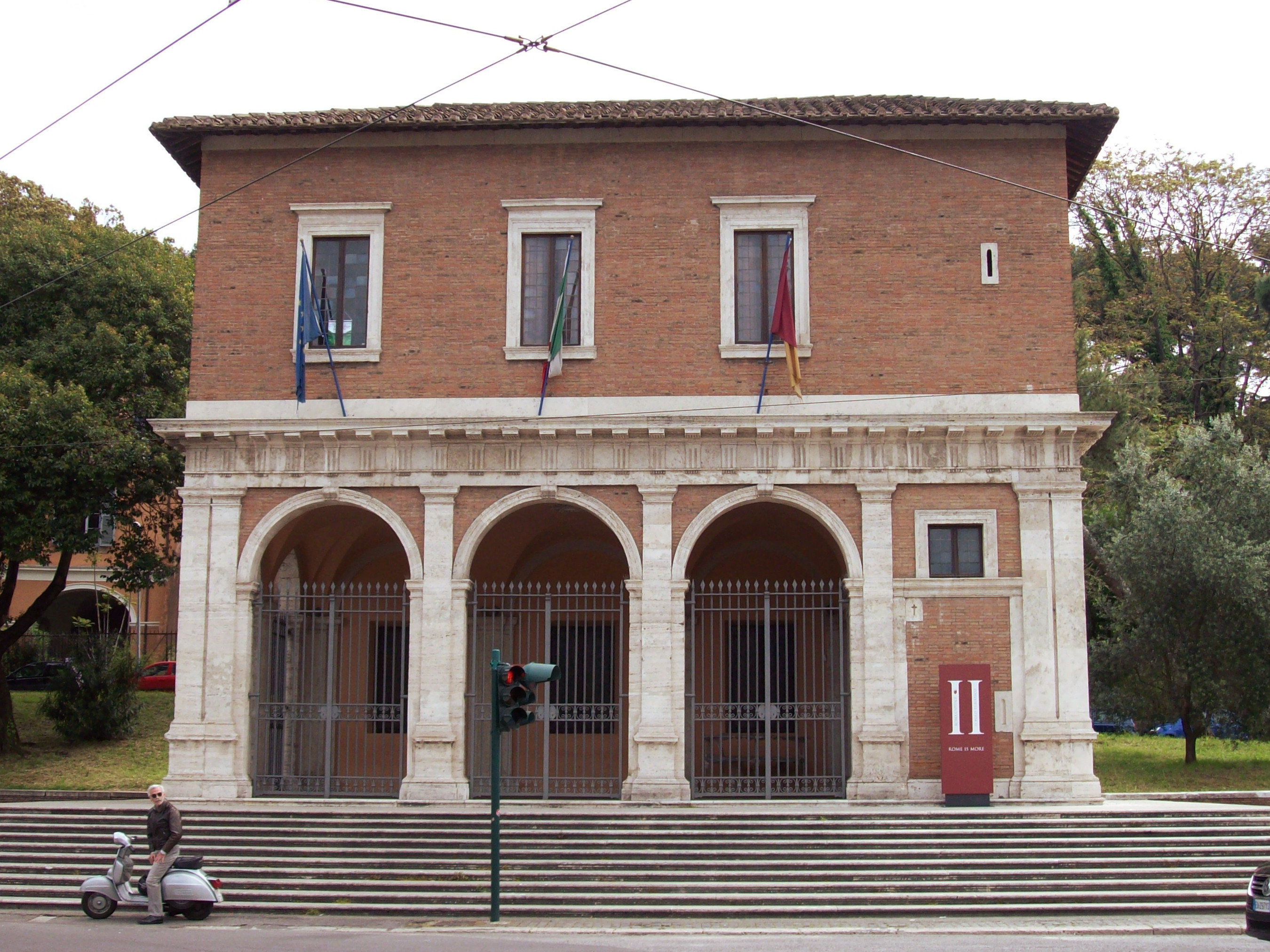 Casino La Vignola Boccapaduli in Rome; originally built on the opposite side of the square in 1538, it was moved in 1911 in order to realize the Passeggiata Archeologica